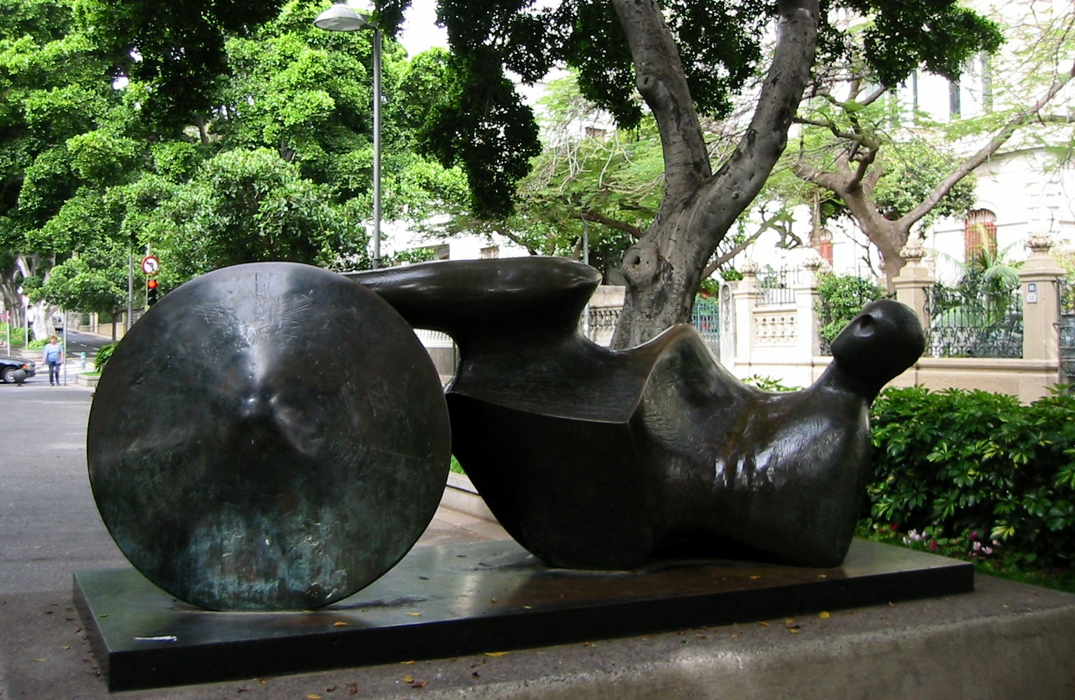 Goslar Warrior by Henry Moore. Tenerife, Canary Islands.